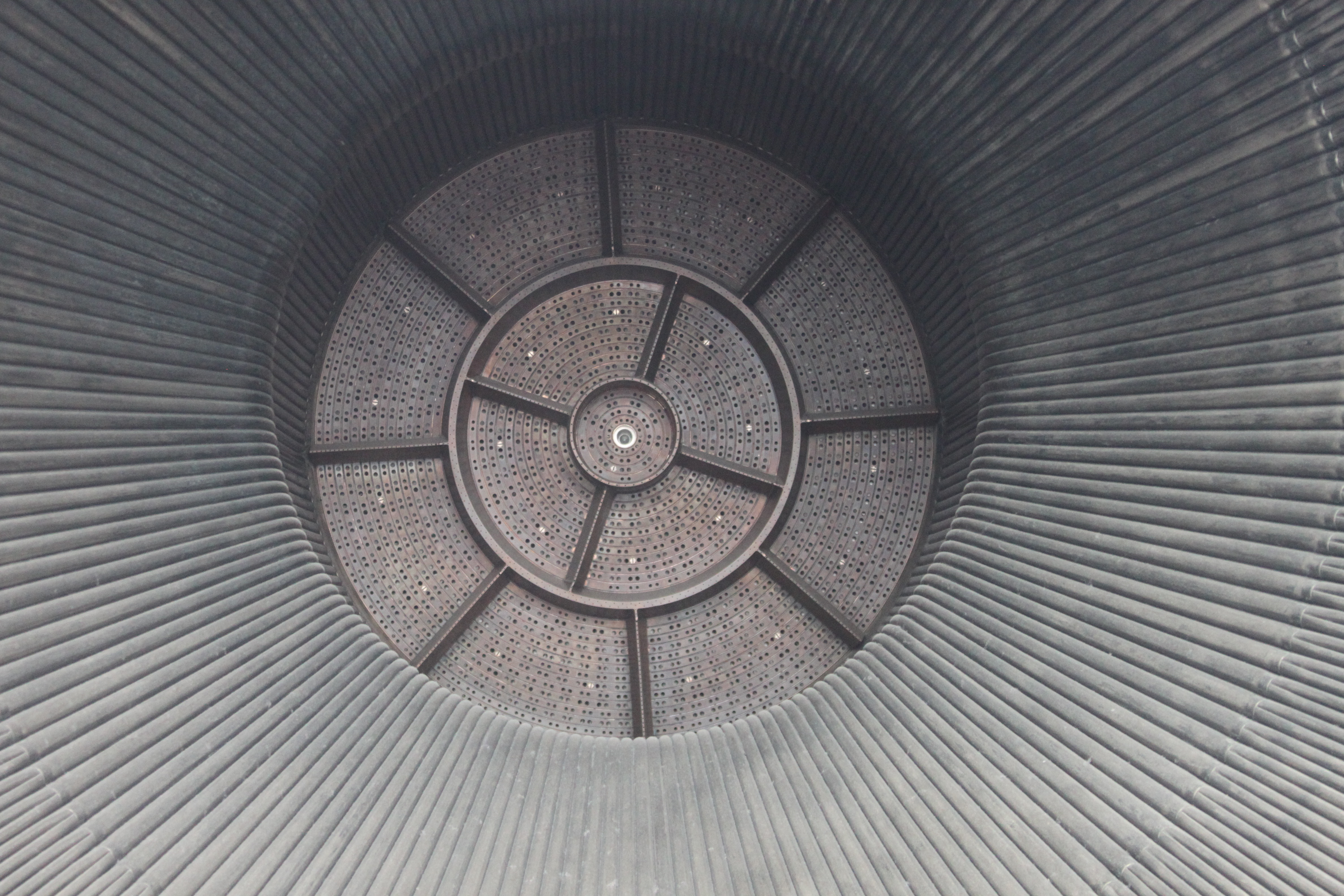 The fuel injector of an F-1 engine on display at the U.S. Space & Rocket Center.